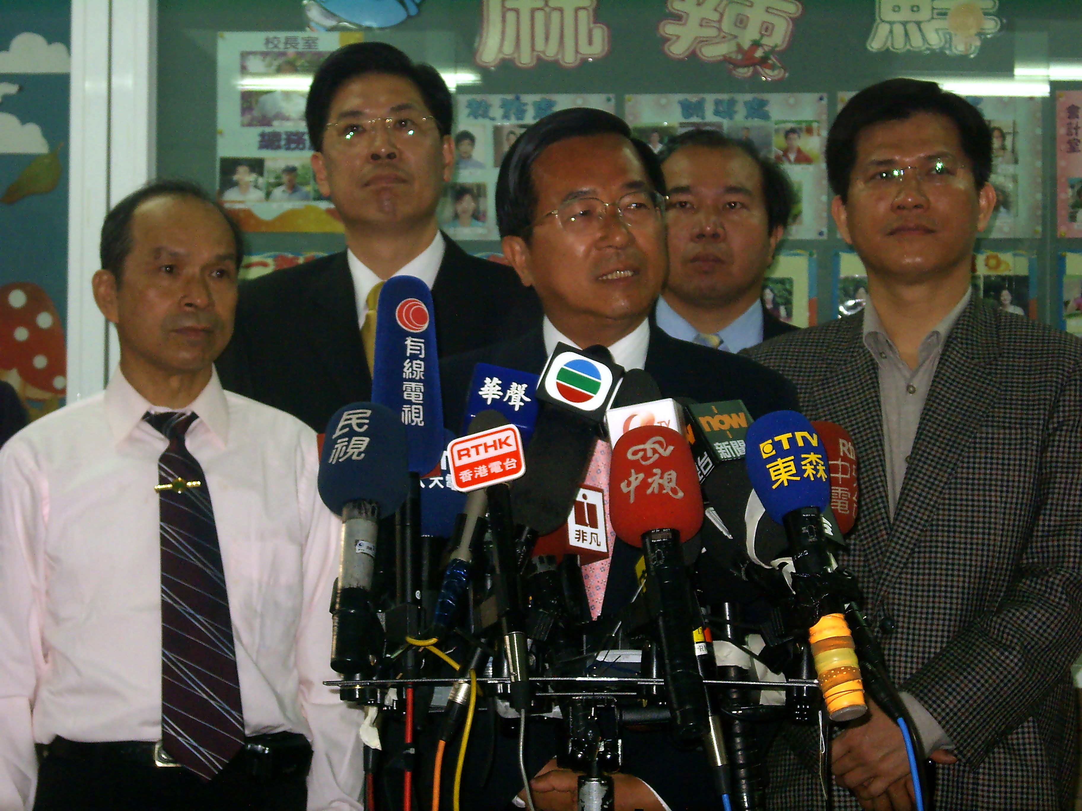 2008 Republic of China Legislative Election: A press conference at Taipei Municipal Min-chu Elementary School.